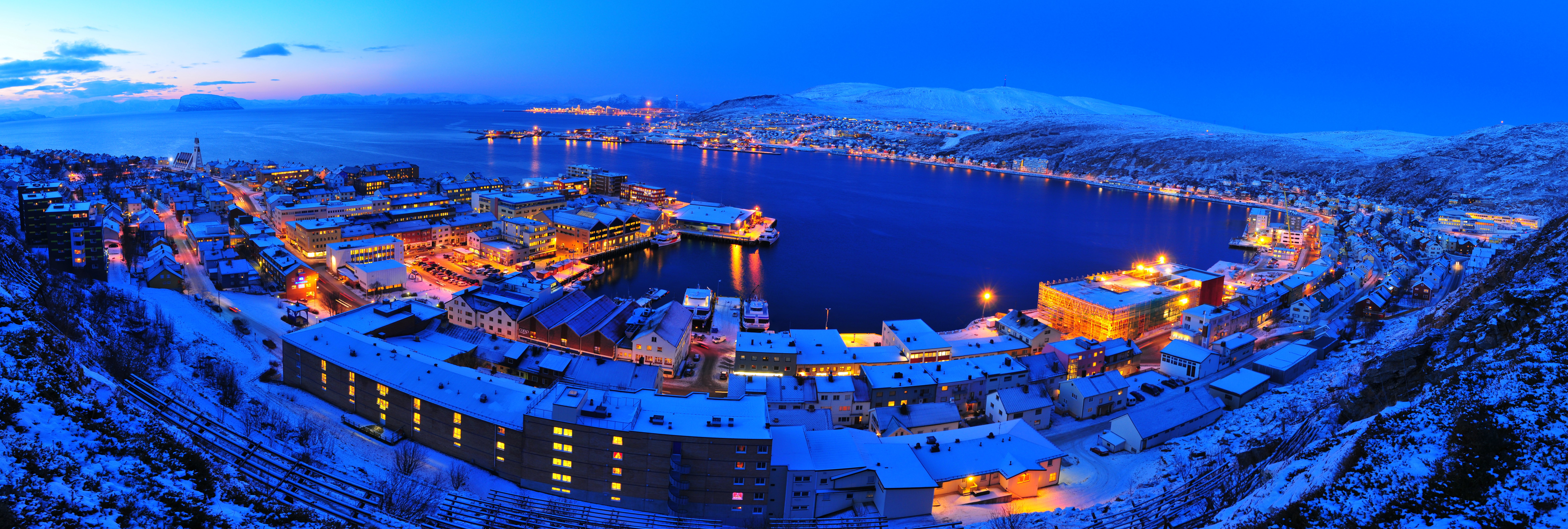 Panoramic view of Hammerfest, Norway